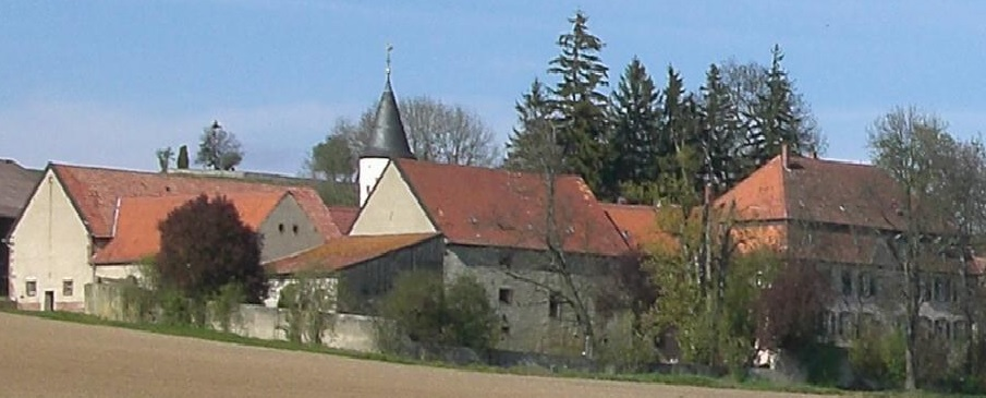 Estate/Manor Quirnheim